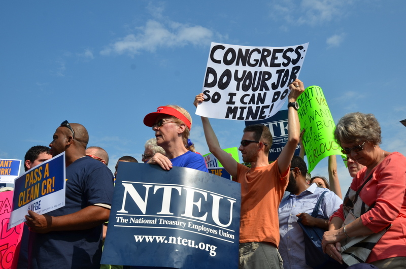 10.4.13 CPC End Government Shutdown Rally